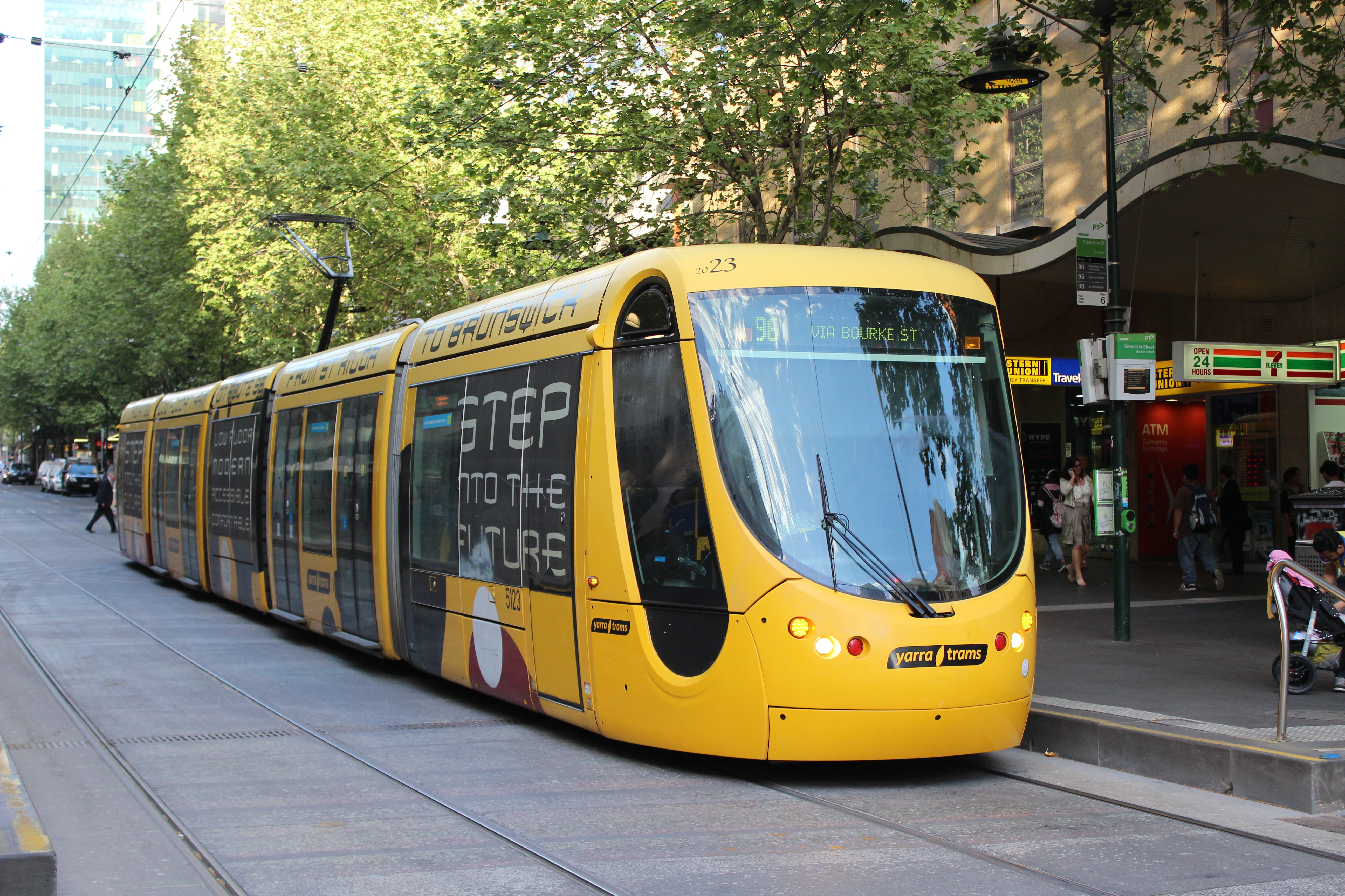 C2 class tram number 5123 in Bourke Street, Melbourne, at the Swanston Street tram stop.